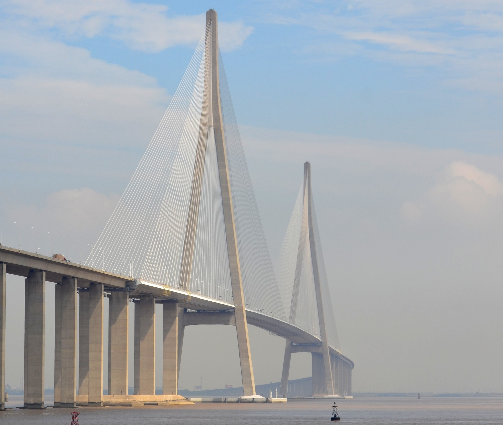 Sutong Bridge over the Chang Jiang (Yangtze River) — between Suzhou and Nantong, Jiangsu province — southern China.